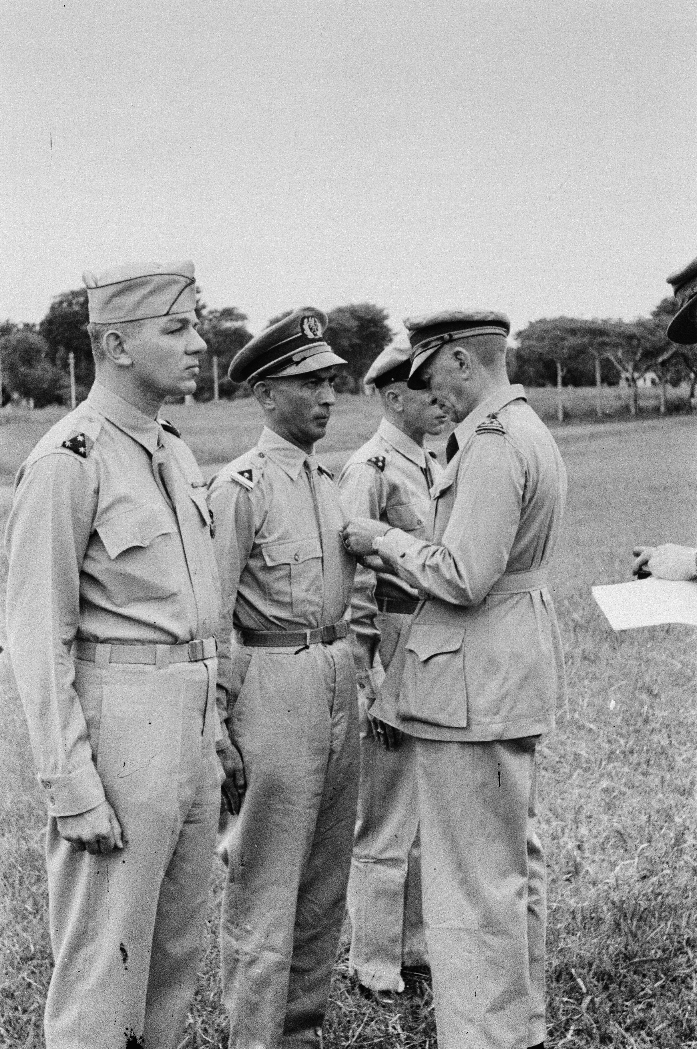 Colonel H.A. Reemer pegs the Bronze Lion decoration to Major G.A.C. Monteiro, Bandung, 1948